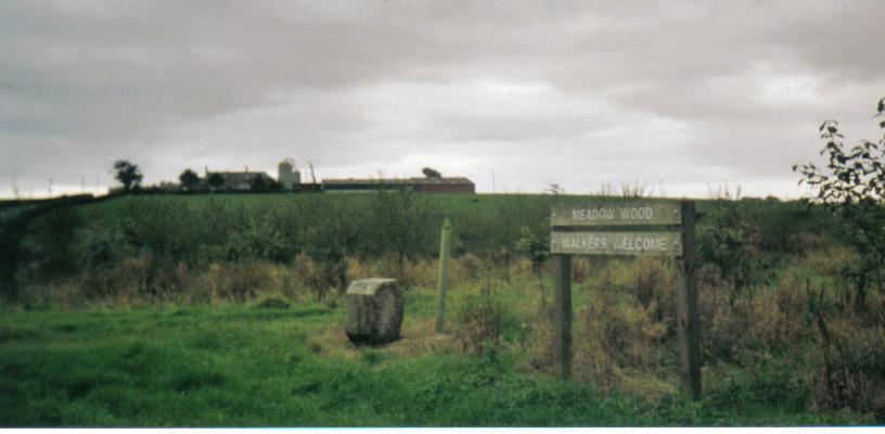 The recently planted Meadow Wood, with Warwickdale Farm on the horizon. 2006.